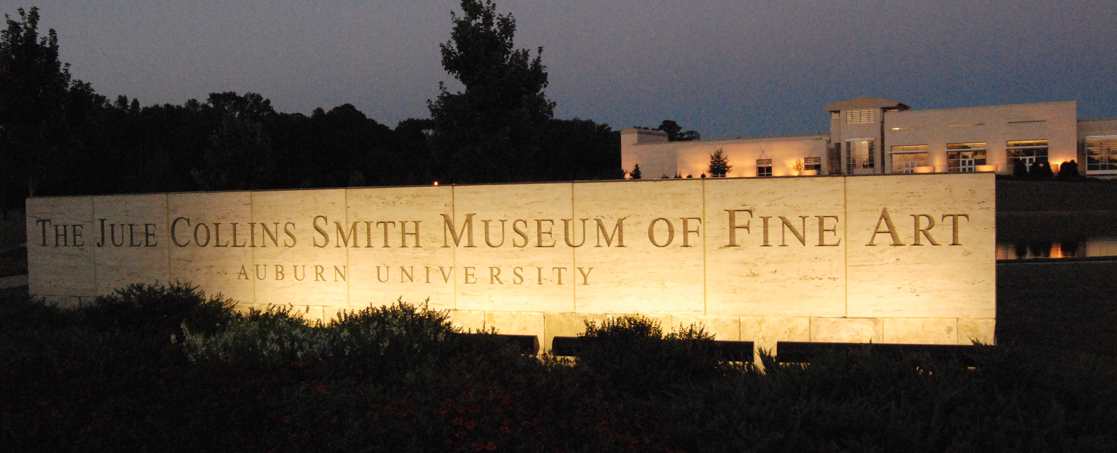 Jule Collins Smith Museum of Fine Art located in Auburn, Alabama.